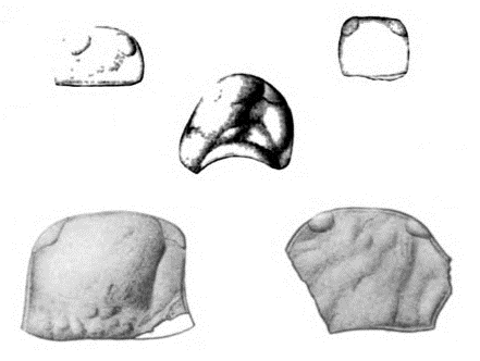 Fossil carapaces of Waeringopterus, derived from